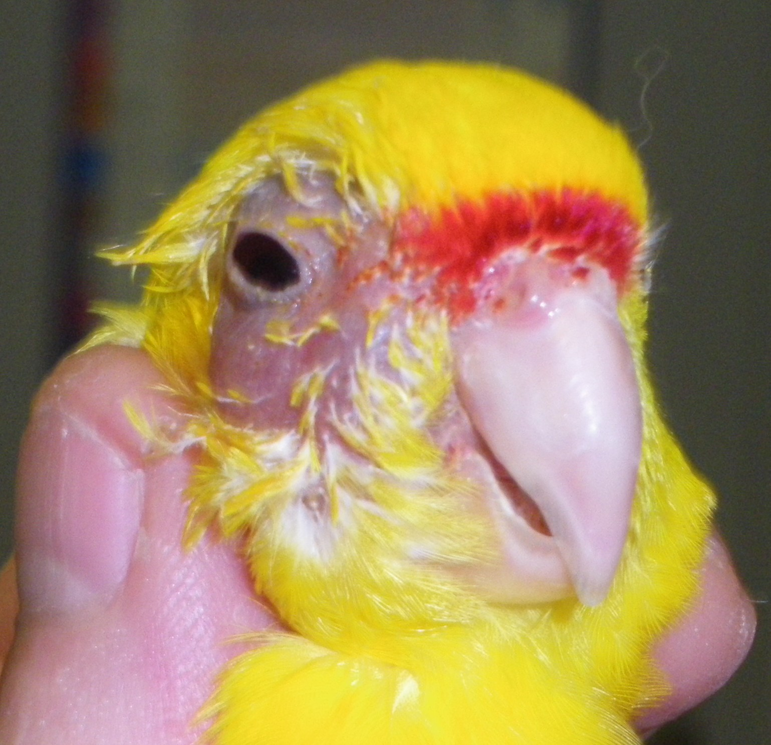 Sinusitis infraorbitalis